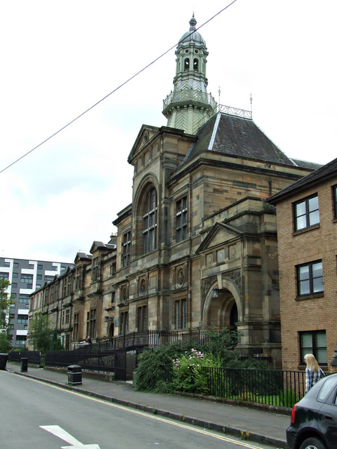 Partick Burgh Halls